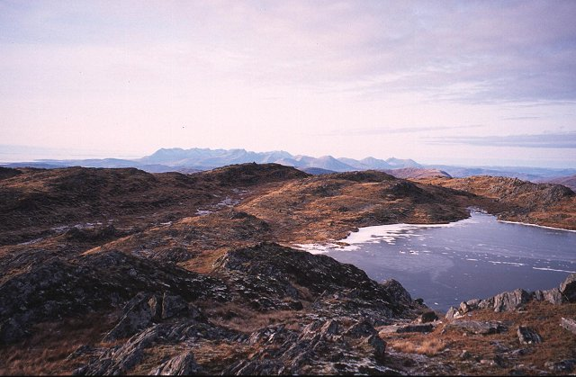 Summit plateau of Beinn a'Chapuil. Looking west across to the Skye Cuillin over the rugged plateau of Beinn a'Chapuil.